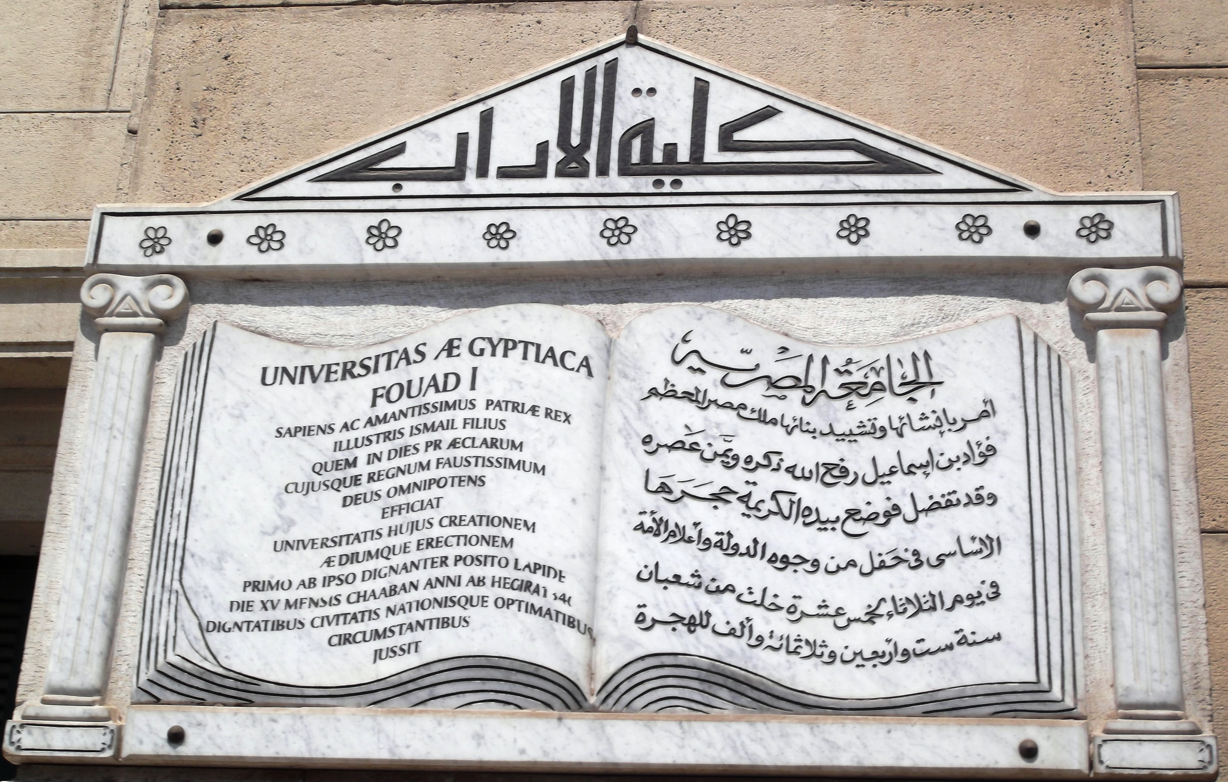 plate at Universitas Aegyptiaca Fouad I, actually Cairo University, Egypt.